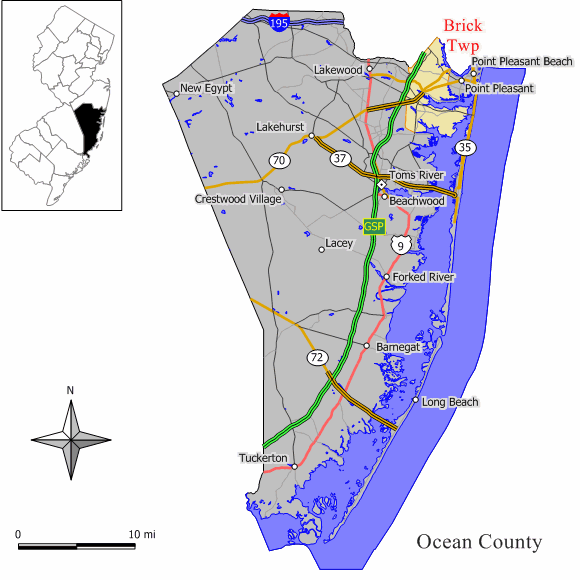 Source: Jim Irwin Original work by Jim Irwin, December 2005.